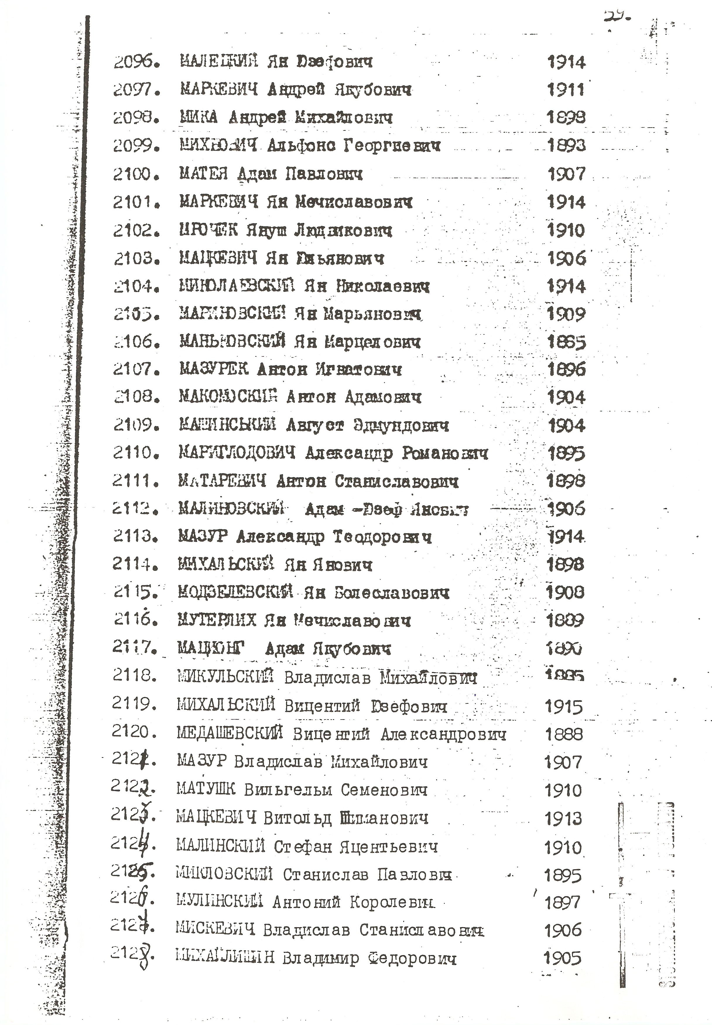 List of prisoners of the Starobielsk camp